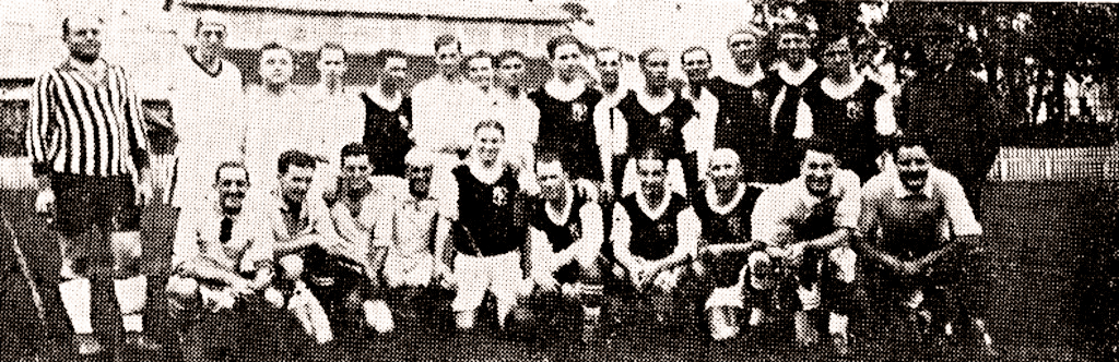 first training of the squad of São Paulo Futebol Clube in 1930.